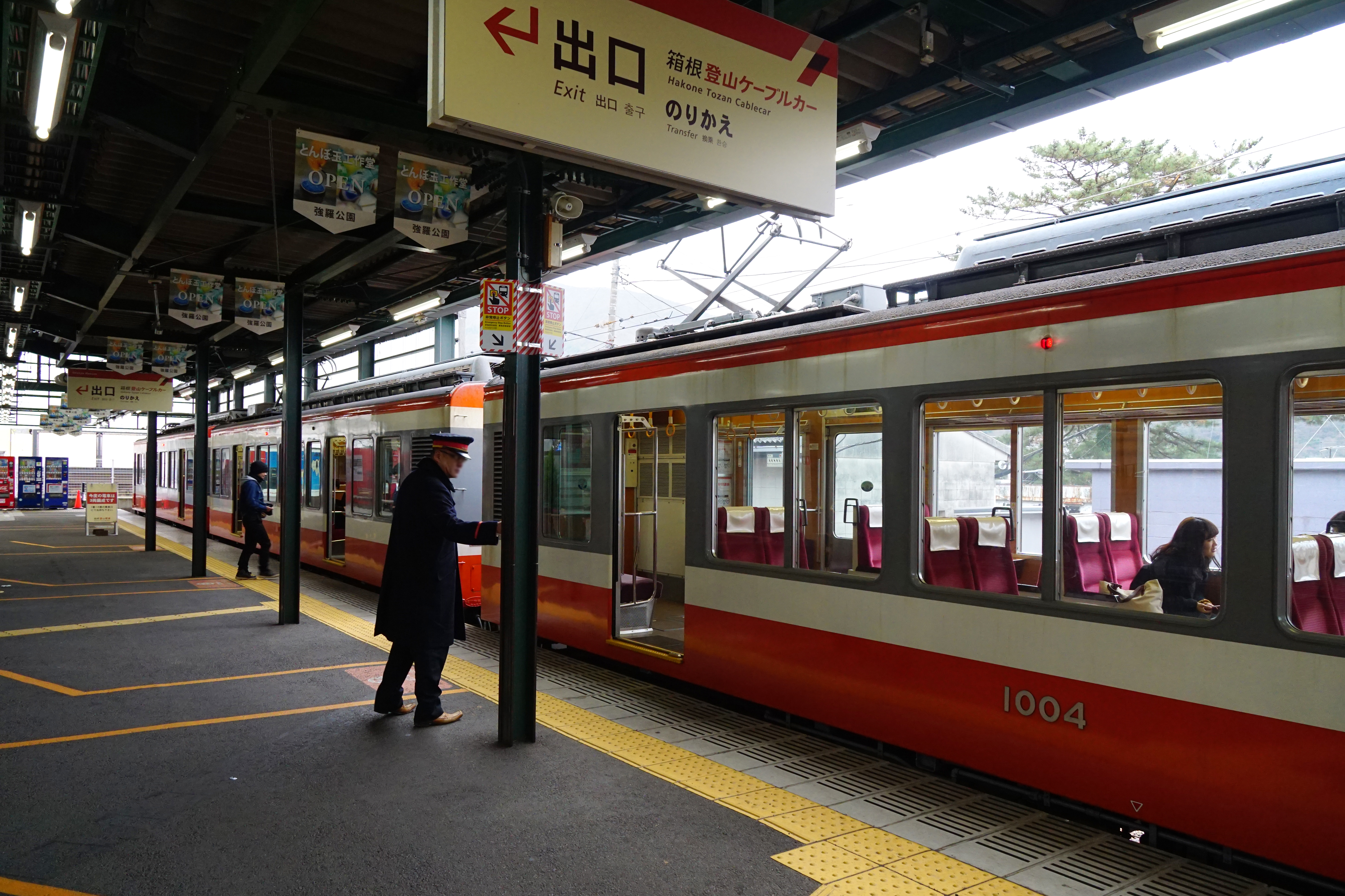 A Hakone Tozan Railway 1000 series EMU at the platform at Gōra Station in Hakone Kanagawa prefecture, Japan